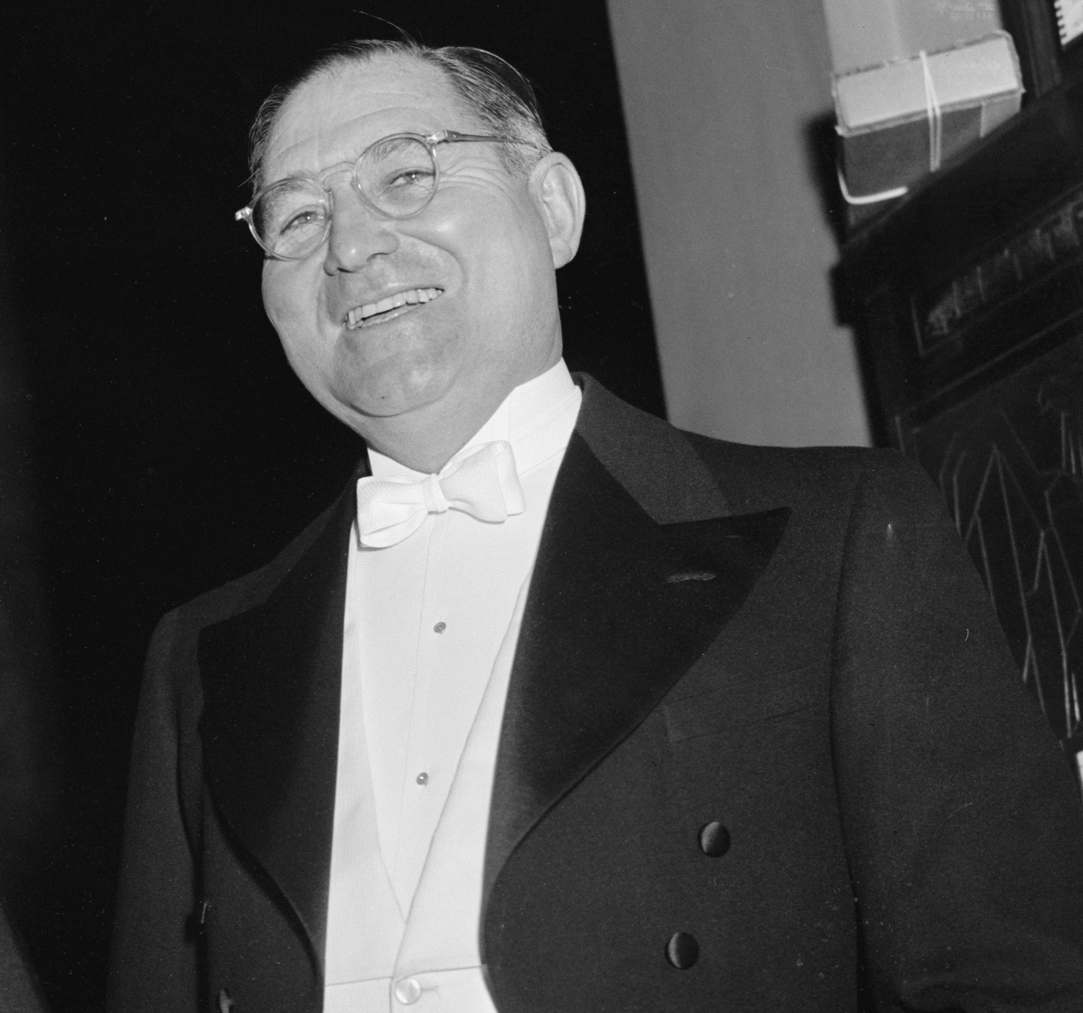 Annual Gridiron dinner. Washington, D.C., Dec. 9. Presidential timber, Thomas E. Dewey and his Campaign Manager, Russell Sprague, as they attended the annual Gridiron dinner in honor of the President